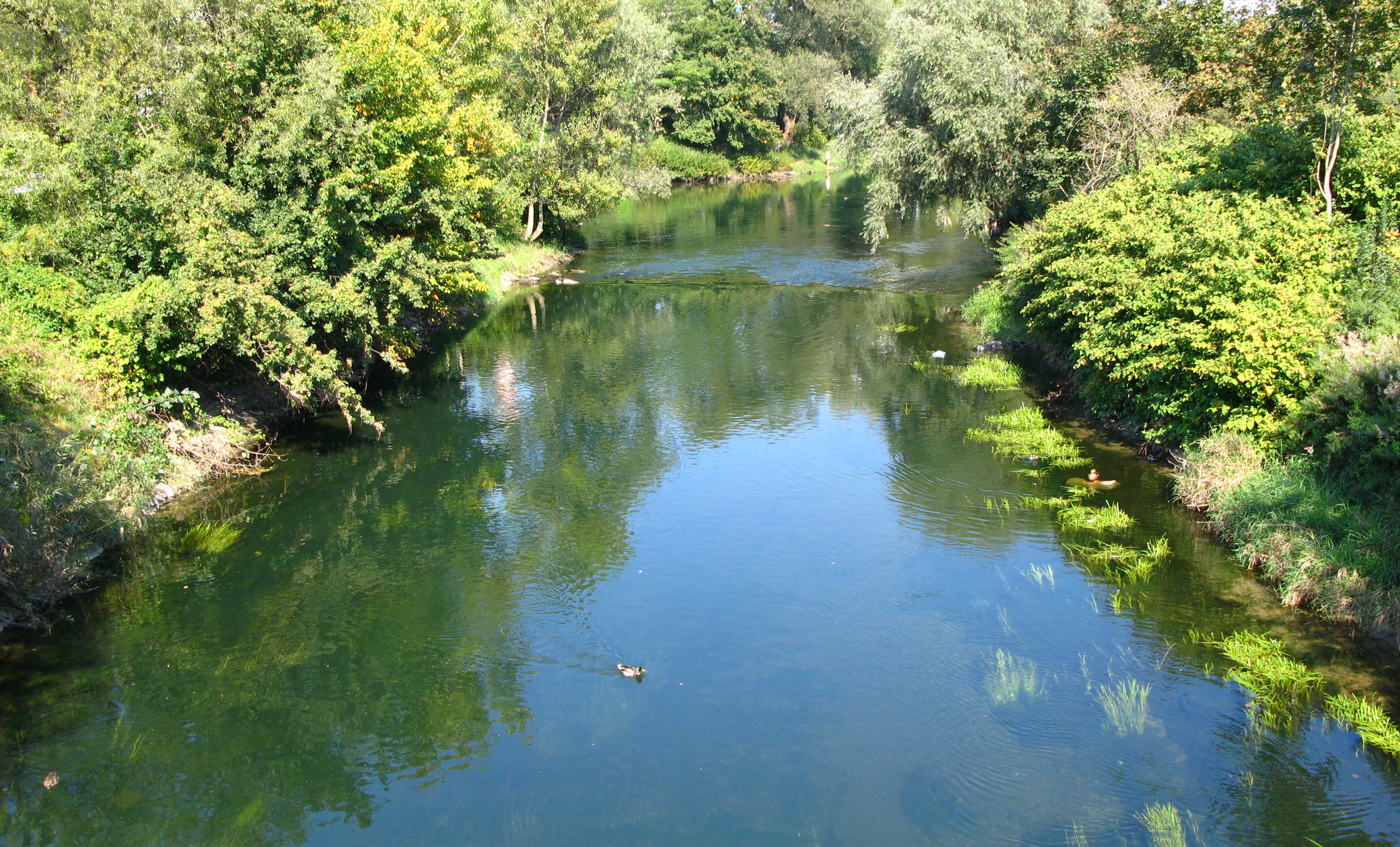 River Ljubljanica in Ljubljana, Slovenia.